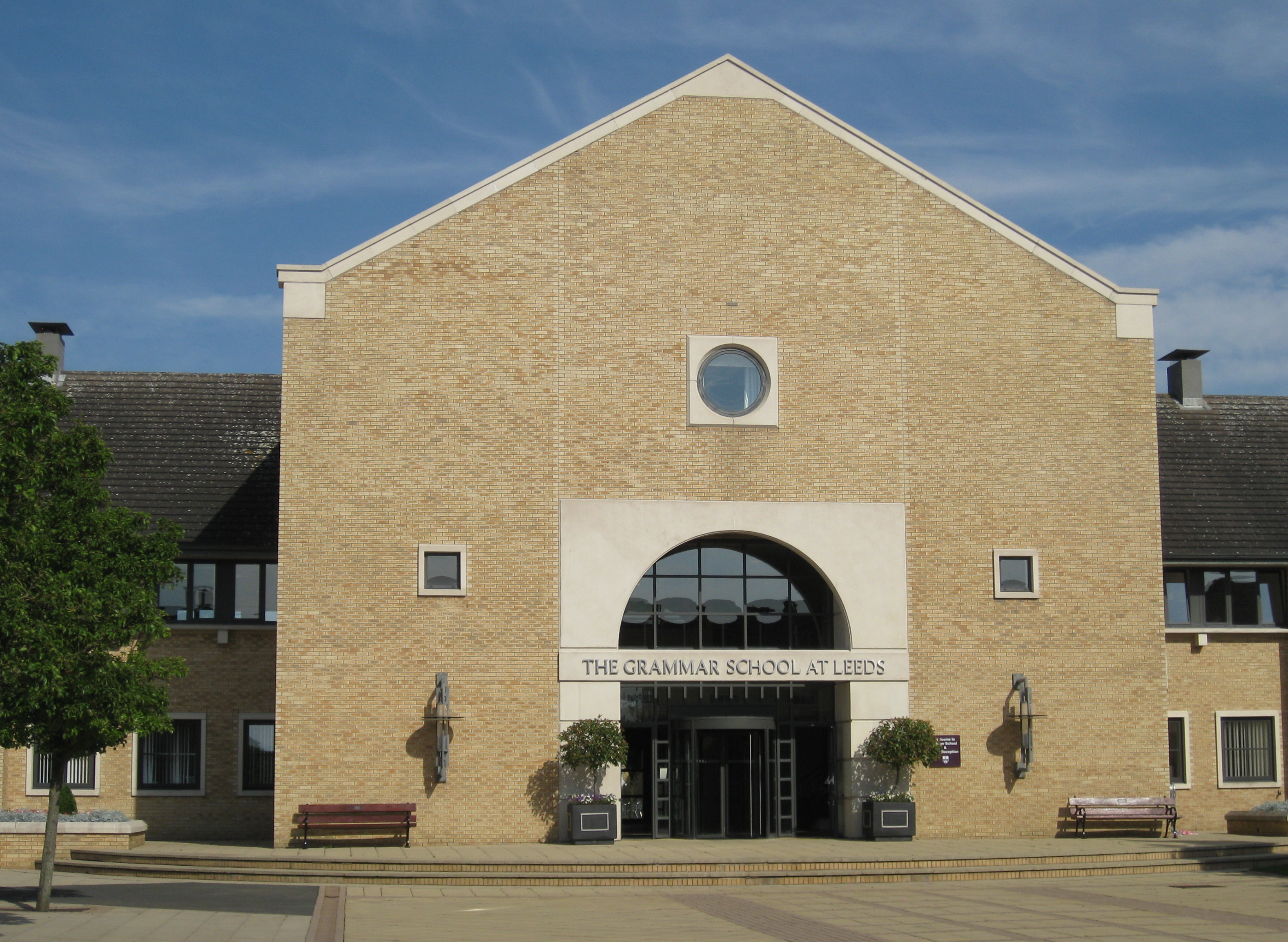 Main entrance of the Senior School, The Grammar School at Leeds, Alwoodley Gates, Harrogate Road, Leeds LS17 8GS.